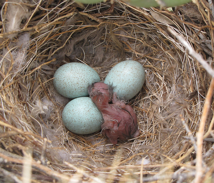 A chick and three Curve-billed Thrasher eggs in a nest in Catalina Foothills, Tuscon, Arizona, USA.